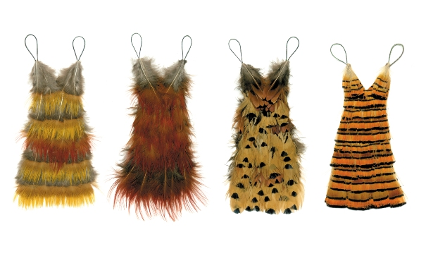 Four dresses made of objects from nature including feathers and flowers; used in the bestselling Fairie-ality book series by David Ellwand